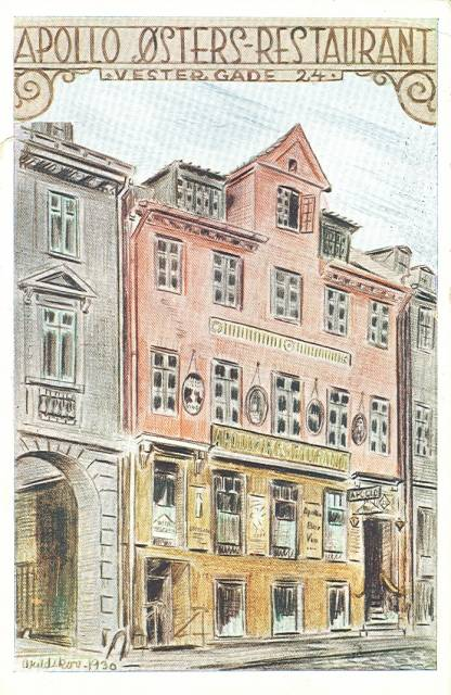 Drawing of the Apollo restaurant at Vestergade 24 in Copenhagen, Denmark